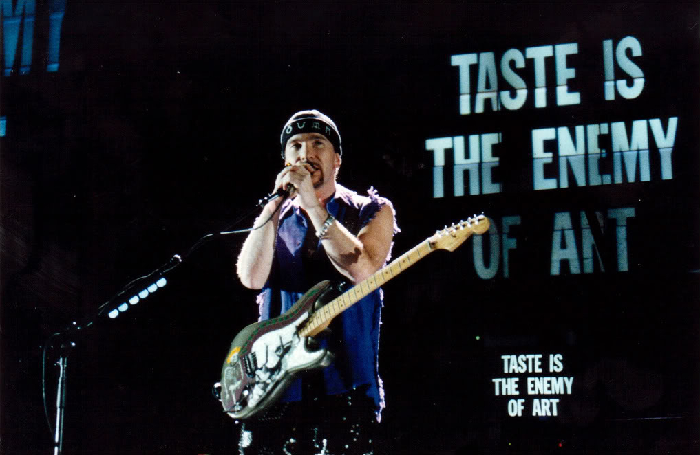 The Edge of the Irish rock band U2 performing on November 13, 1993, at the Melbourne Cricket Ground in Melbourne, Australia, on their Zoo TV Tour